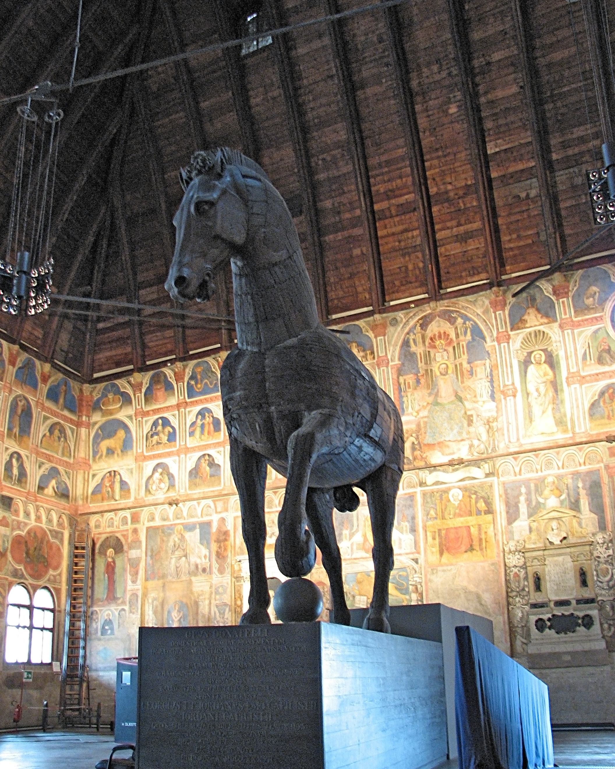 Palazzo della Ragione, Padova, Italy. Interior.